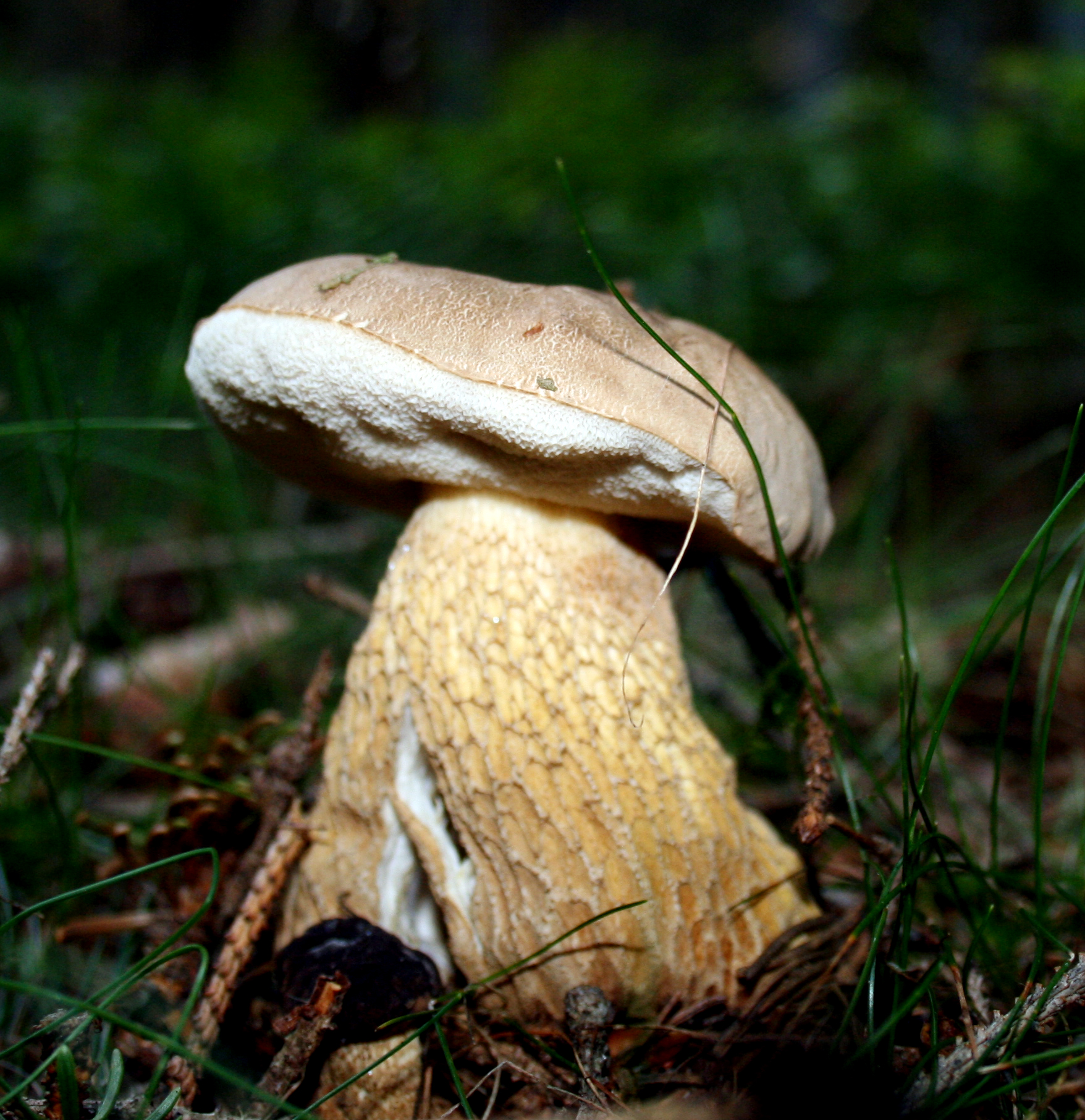 (Tylopilus felleus), found in South Bohemia, Czech Republic